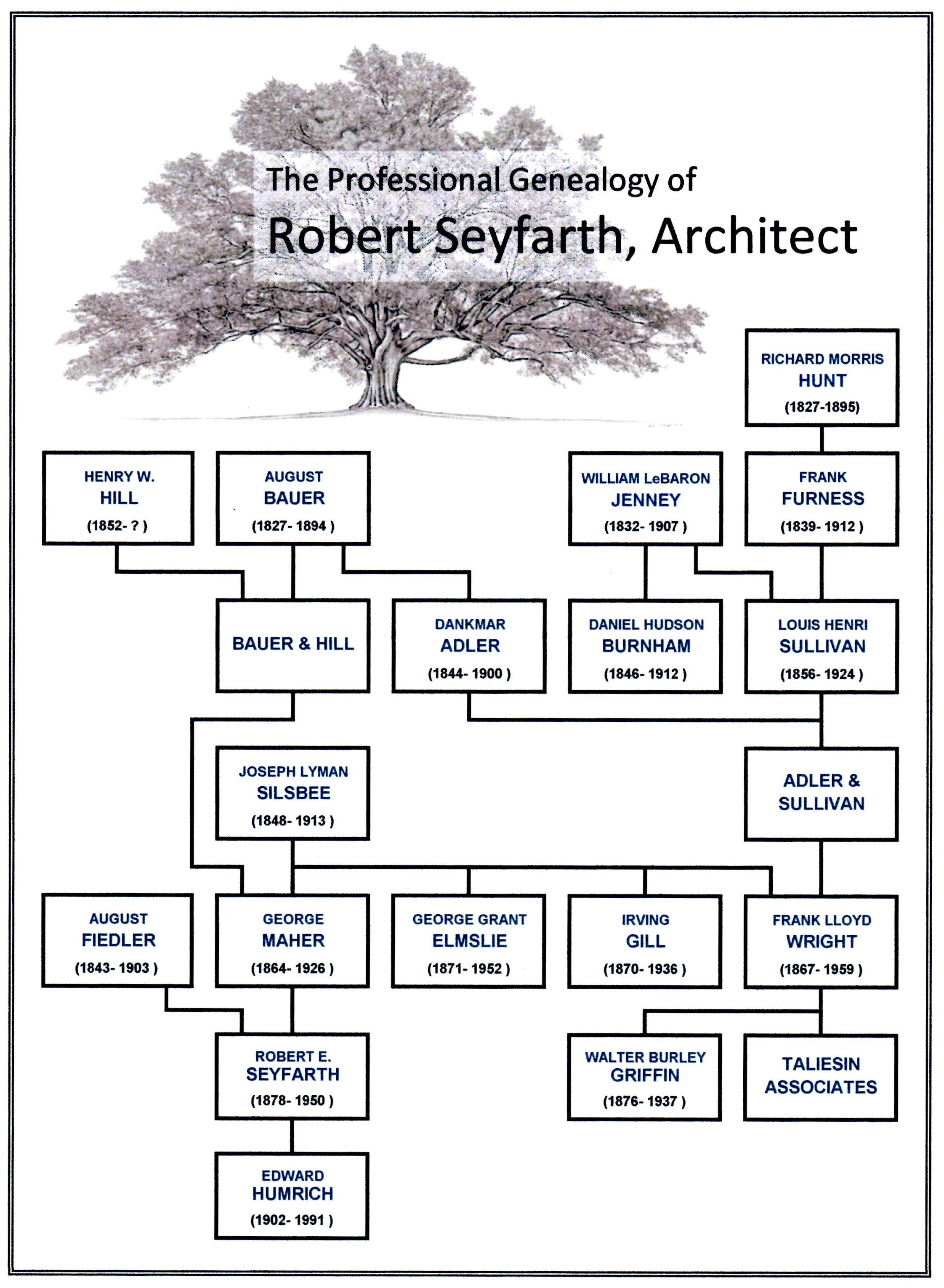 Updated version - Professional flow chart showing professional genealogy of Robert Seyfarth, architect